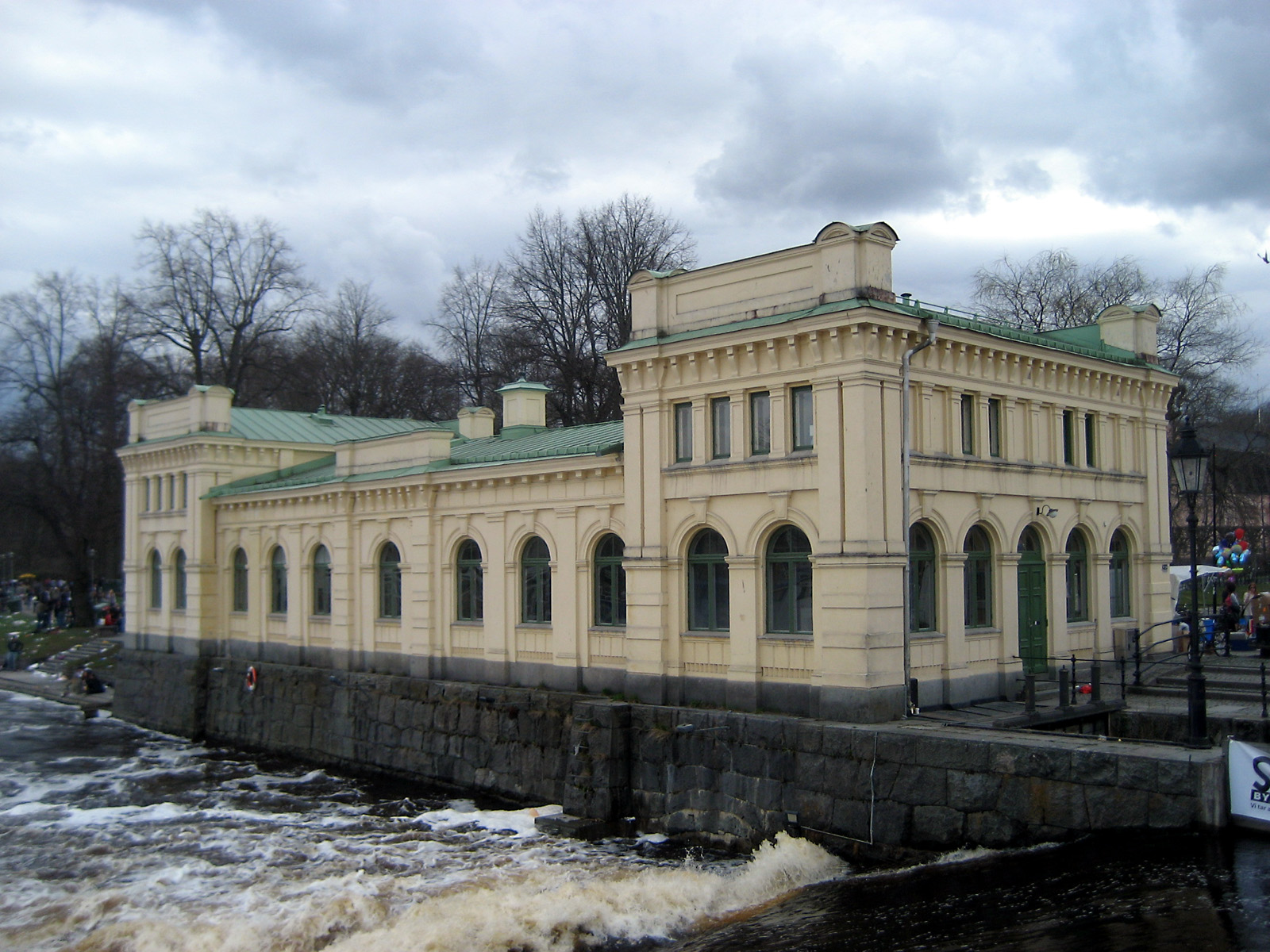 Water pumping station in Uppsala, Sweden.